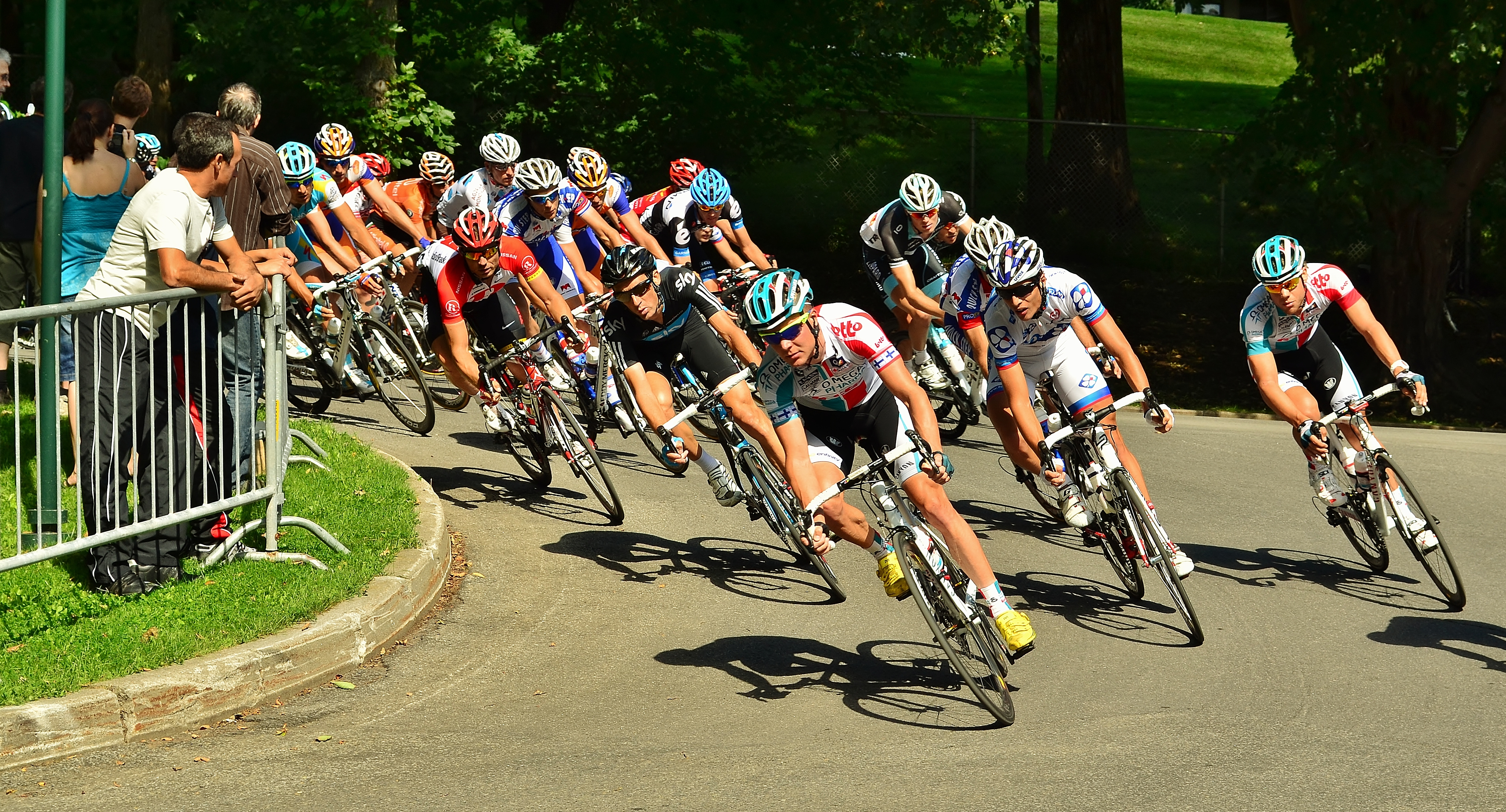 Quebec City's Grand Prix Cycliste